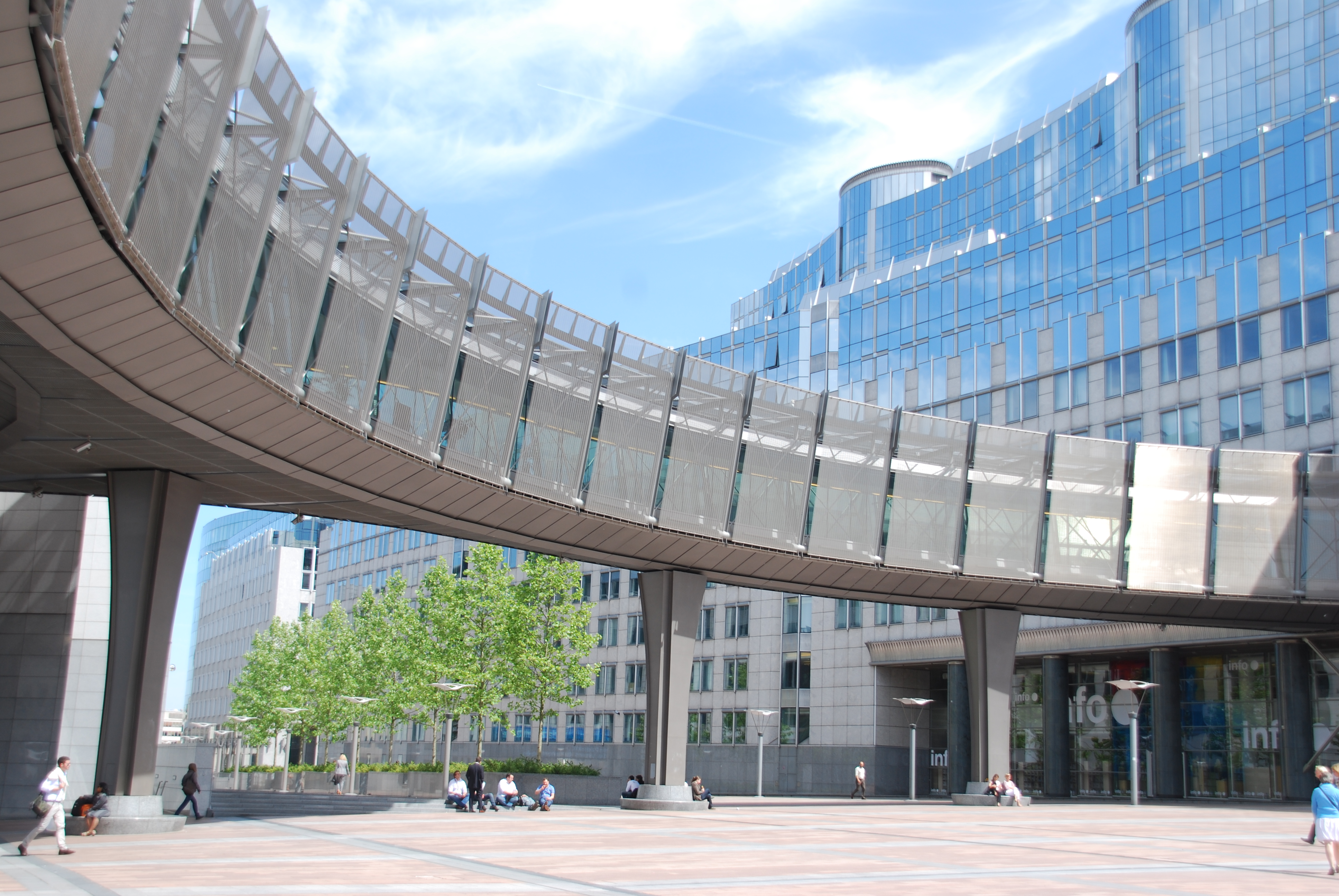 European Parliament, Brussels